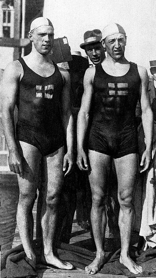 Håkan Malmroth (right) and Thor Henning (left) at the Antwerpen Olympics